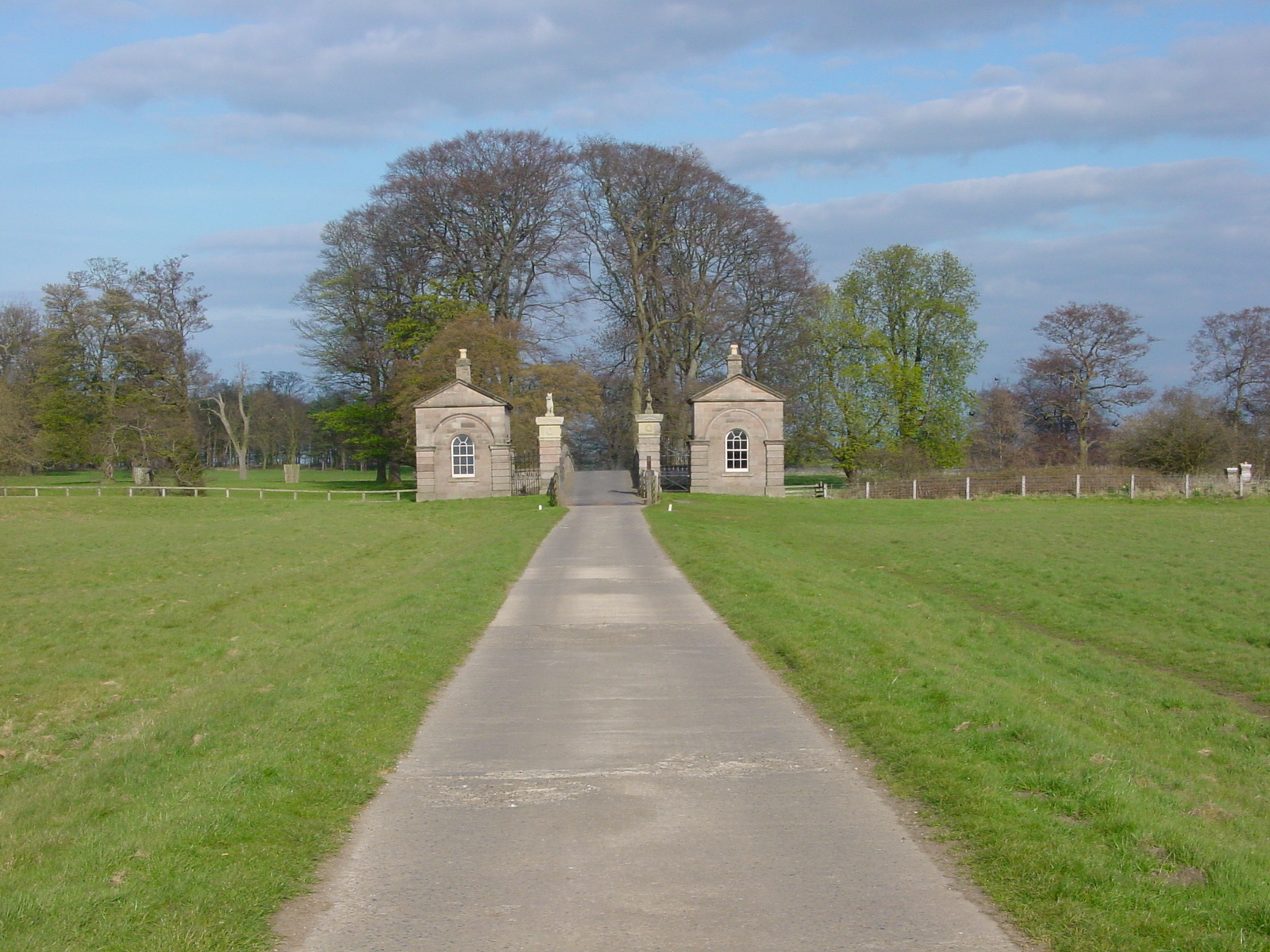 This is the bridge over the river Nidd in Ribston Park, Yorkshire